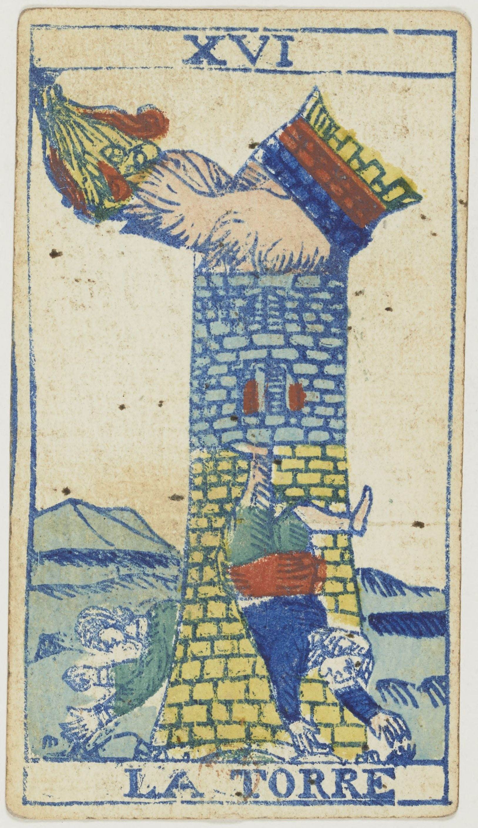 Piedmontese tarot deck, F. F. Solesio, 1865: the Tower